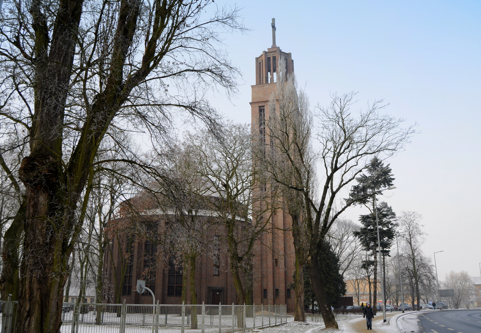 Christ King Church in Gorzów Wielkopolski, Poland